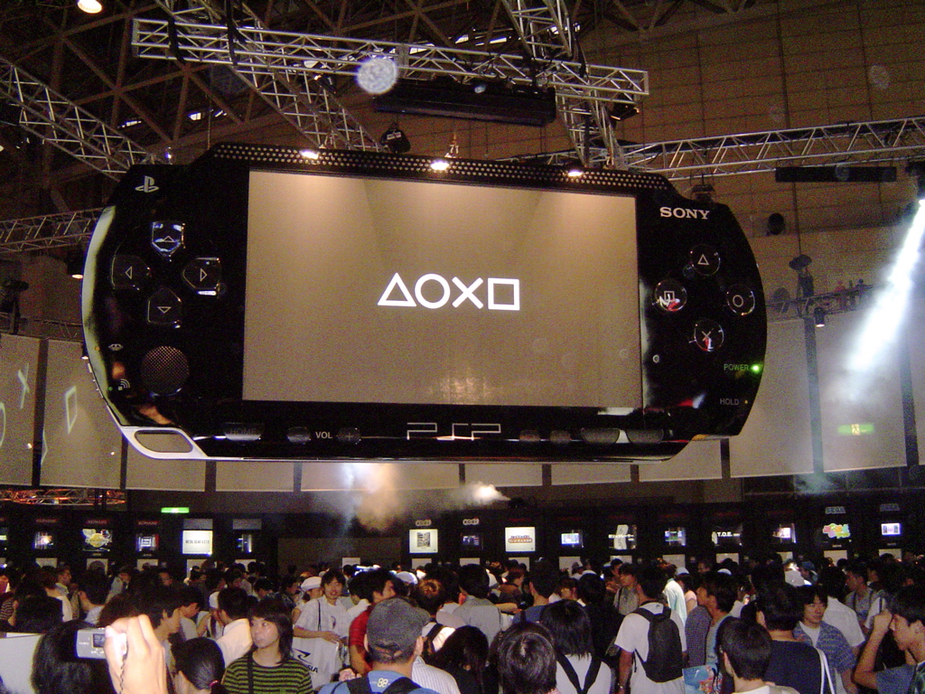 Sony PSP Booth at the Tokyo Game Show 2004